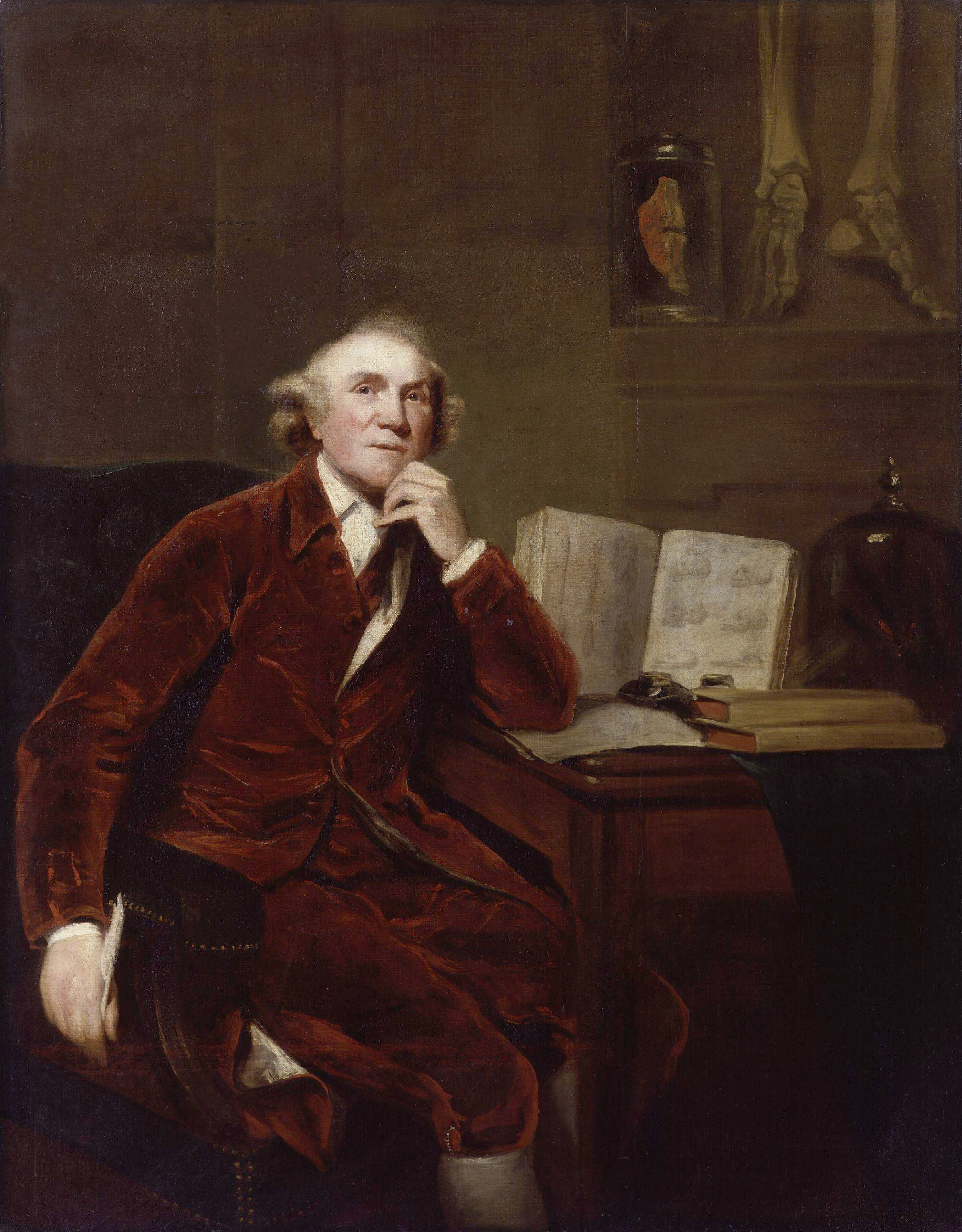 John Hunter. Painted by John Jackson in 1813, after an original by Sir Joshua Reynolds, who exhibited his painting at the Royal Academy in 1786.